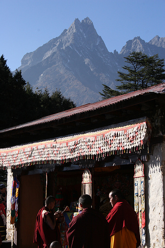 Tengboche monastery during the Mani Rimdu Festival 2008